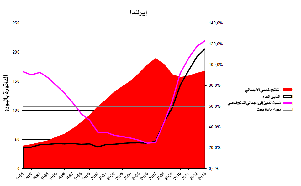 public debt, gdp, debt-dgp-ratio Ireland. Source of data ameco data from European Commission, own computations